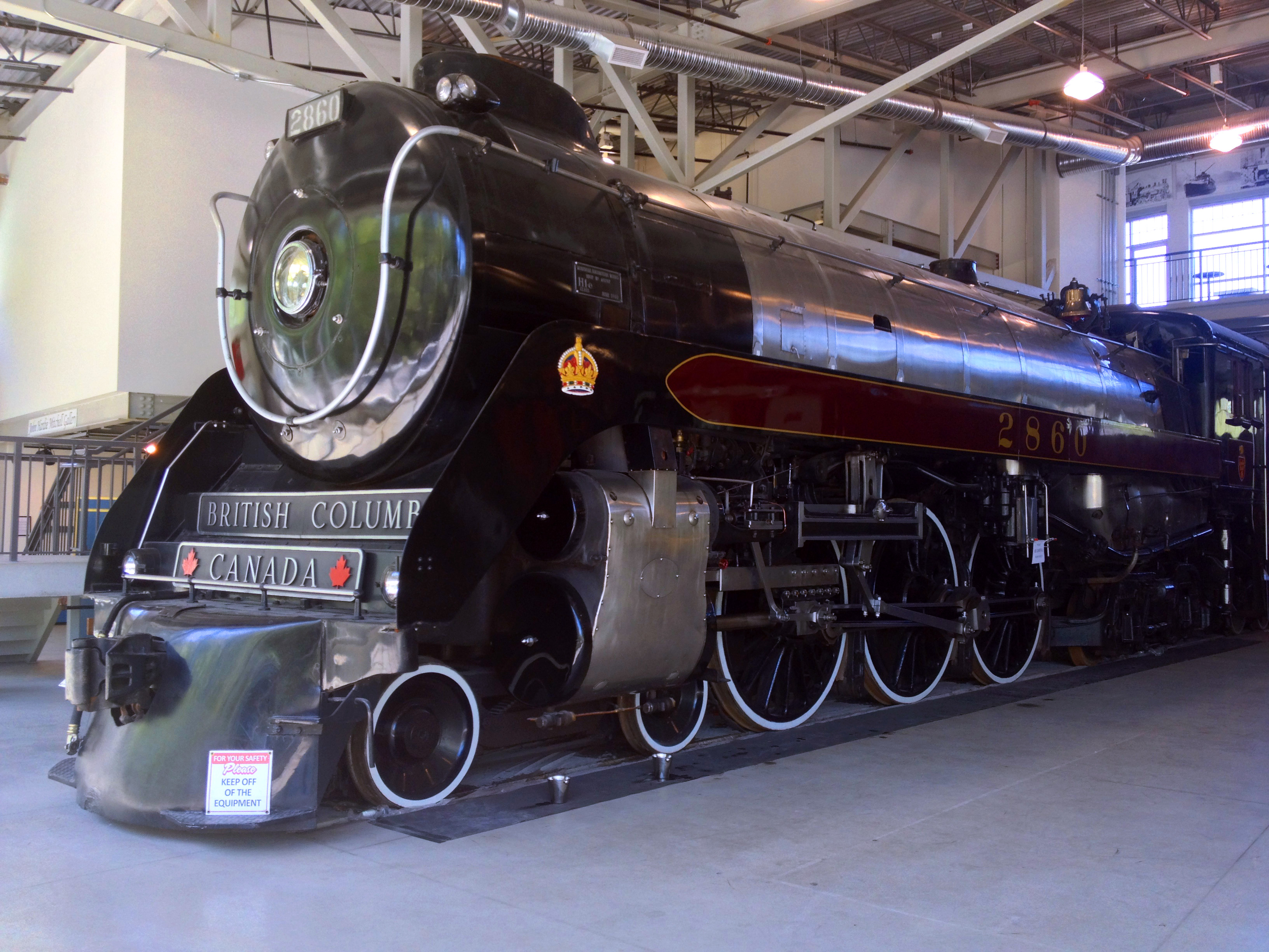 Royal Hudson train #2860, at the Railway Museum (Squamish, BC)